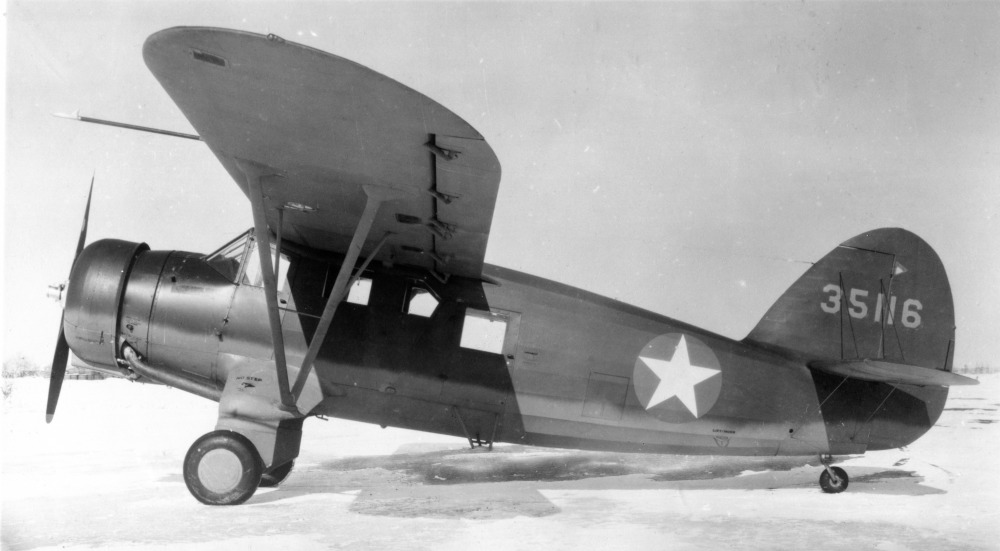 PictionID:40973467 - Title:Norseman Noorduyn UC-64 43-5116 - Catalog:15_002819 - Filename:15_002819.tif - Image from the Charles Daniels Photo Collection album "US Army Aircraft."----PLEASE TAG this image with any information you know about it, so that we can permanently store this data with the original image file in our Digital Asset Management System.----SOURCE INSTITUTION: San Diego Air and Space Museum Archive